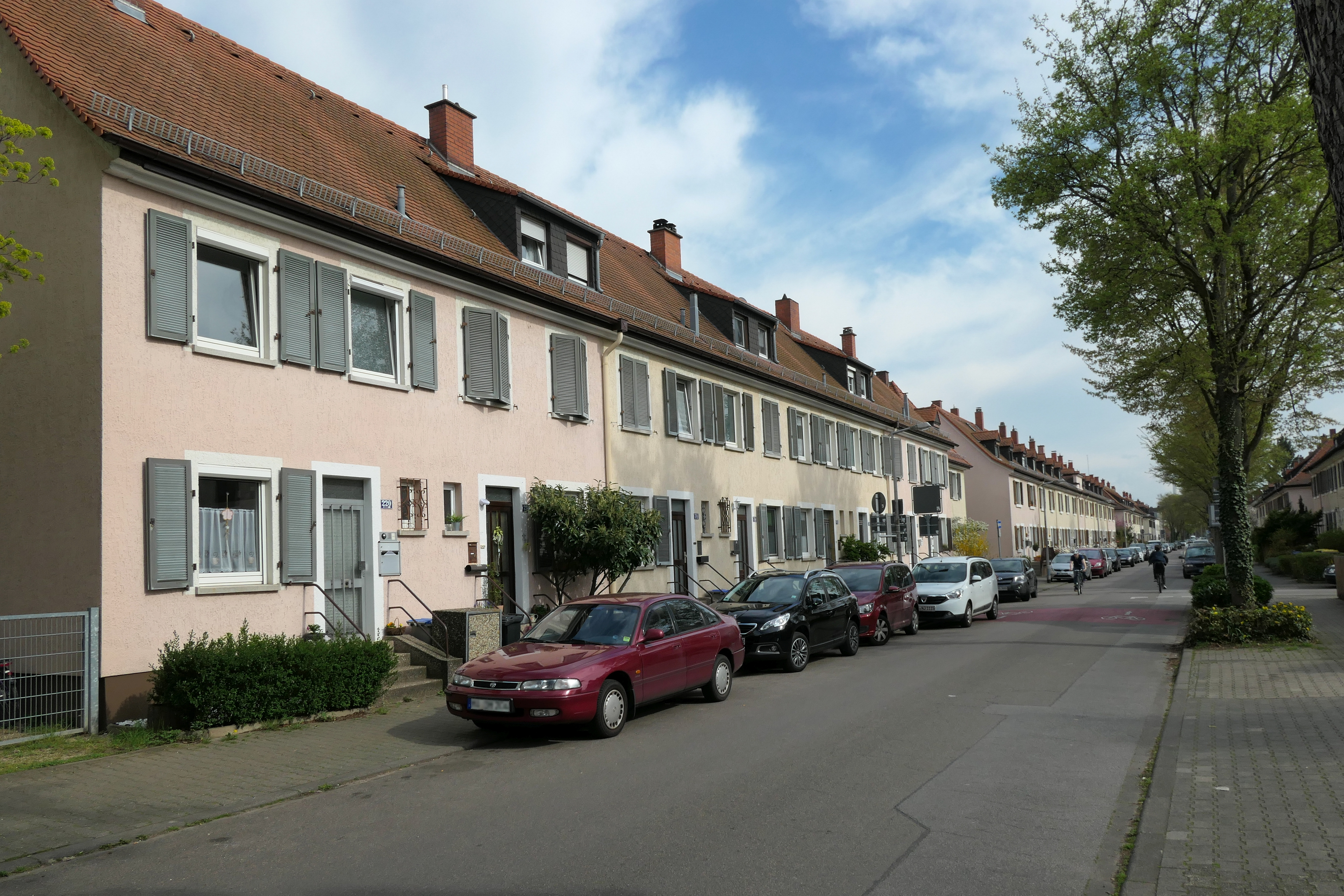 Mönchwörthstr., Mannheim-Almenhof